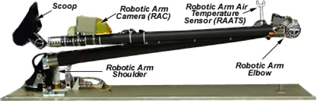 Photo of the Robotic Arm (RA) incorporated on the Mars Polar Lander.